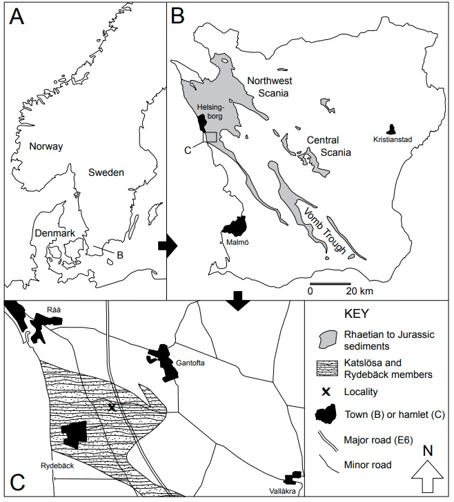 Map of Rya Formation - Katslosa and Rydeback members - Scania